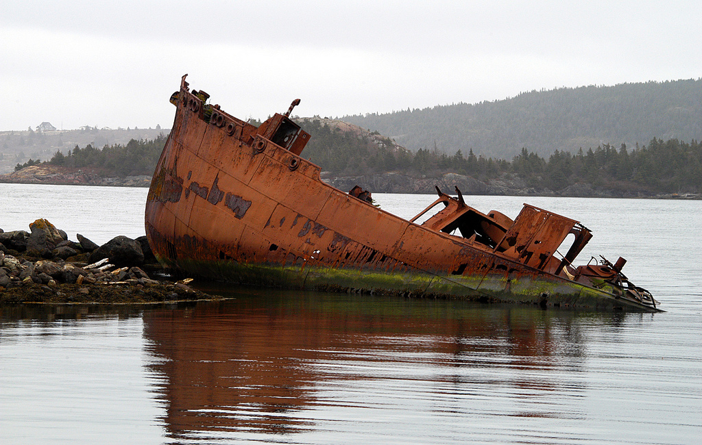 A wrecked ship in Conception Harbour, Newfoundland.